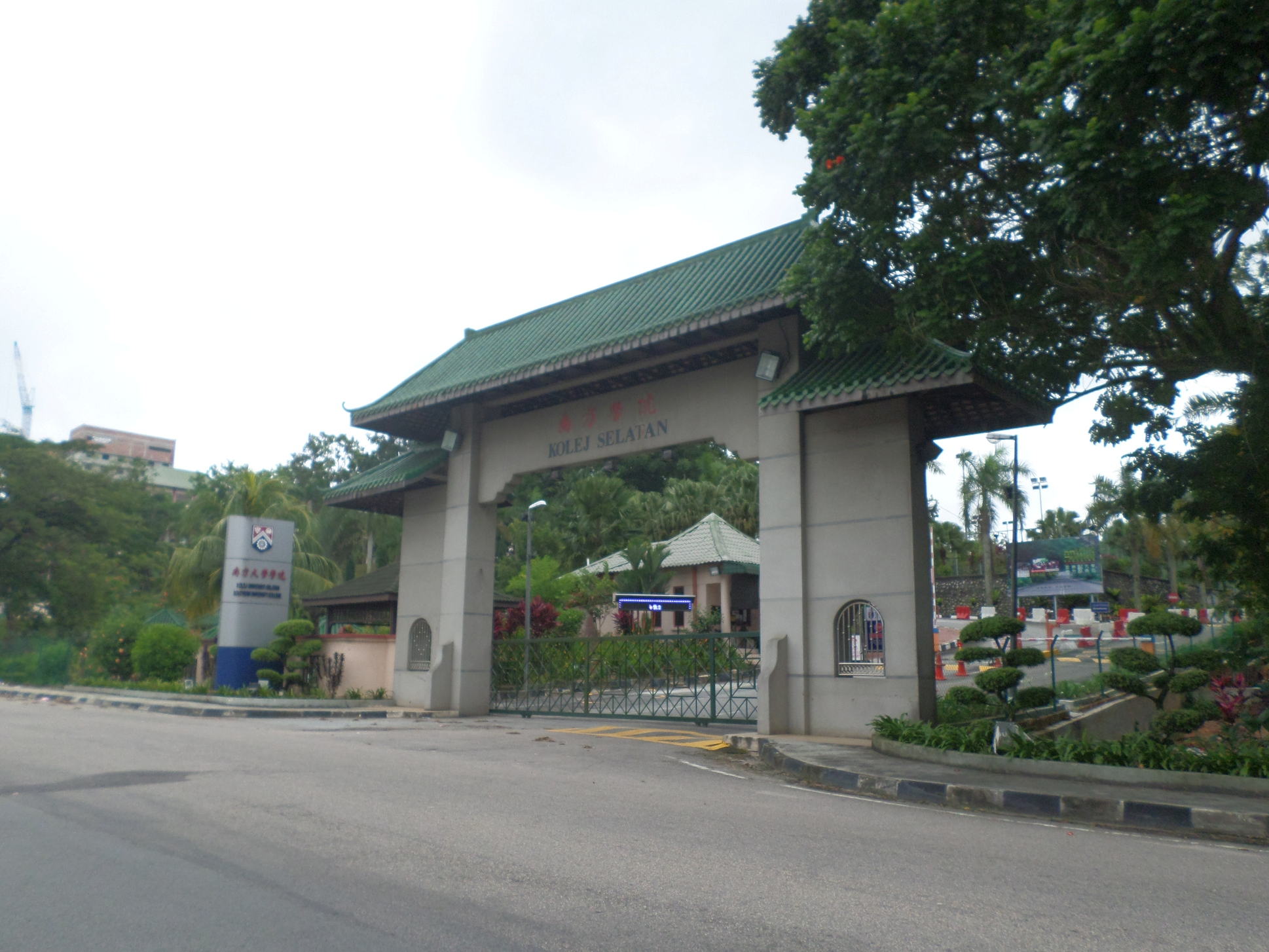 Southern University College, Skudai, Iskandar Puteri, Johor Bahru, Johor, MalaysiaBahasa Melayu: Universiti Kolej Selatan, Skudai, Iskandar Puteri, Johor Bahru, Johor, Malaysia